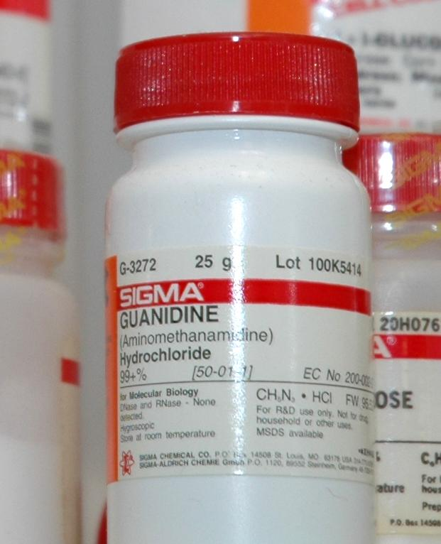 Title: Technology: Lab Description: Various chemicals used in the lab. Subjects (names): Topics/Categories: Technology -- Lab Type: Digital Color Source: National Cancer Institute Author: Diane A. Reid, Photographer Date Created: February 3, 2005 Date Added: 6/9/2005 Reuse Restrictions: None - This image is in the public domain and can be freely reused. Please credit the source and/or author listed above.